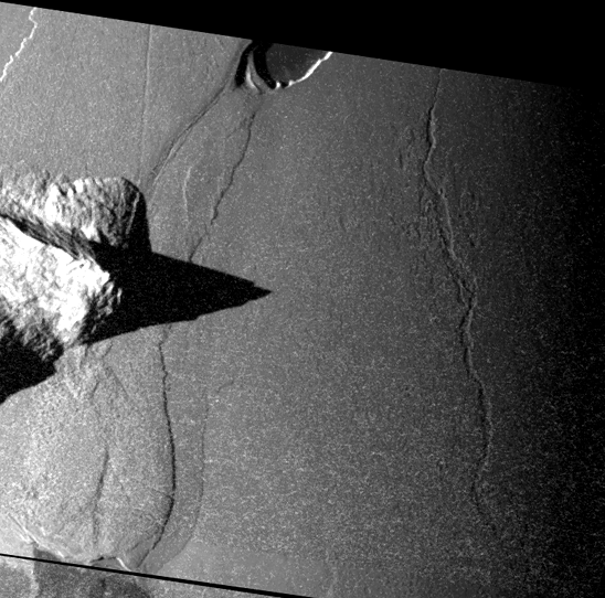 Image of Tawhaki Vallis taken by the Galileo spacecraft on November 26, 1999. Image scale is 253 meters per pixel. Tawhaki Vallis run north-south along the right side of the image. Portions of Tawhaki Patera, North Hi'iaka Montes, and Hi'iaka Patera are visible near top center, left center, and bottom left, respectively.